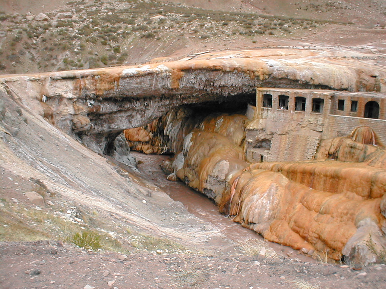 Description: Puente del Inca Source: Nepenthes - own picture Date: 10 /2004